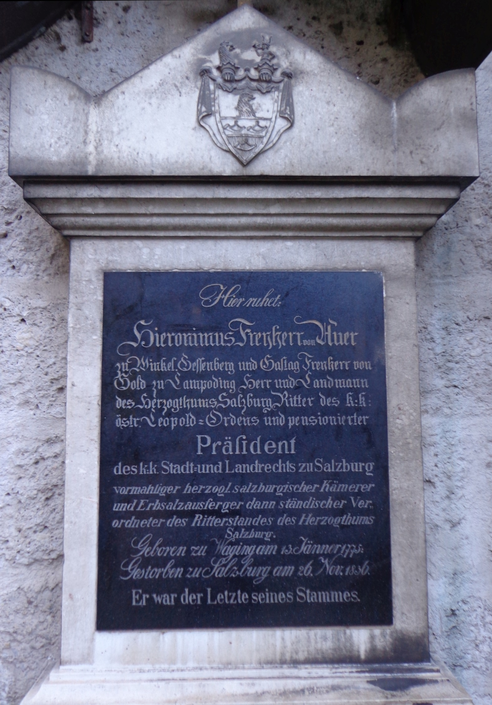 Mariazellerkapelle (Petersfriedhof Salzburg) SE wall: Epitaph of Baron Hieronymus von Auer zu Winkel, von Gold zu Lampoding